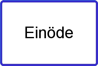 Roadsign of several Villages called "Einöde" in Austria